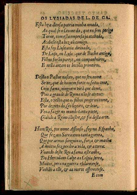 Page of Os Lusíadas, by Luís de Camões